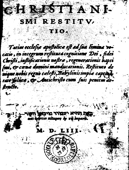 Title page of Miguel Servet’s Christianismi restitutio (1553)